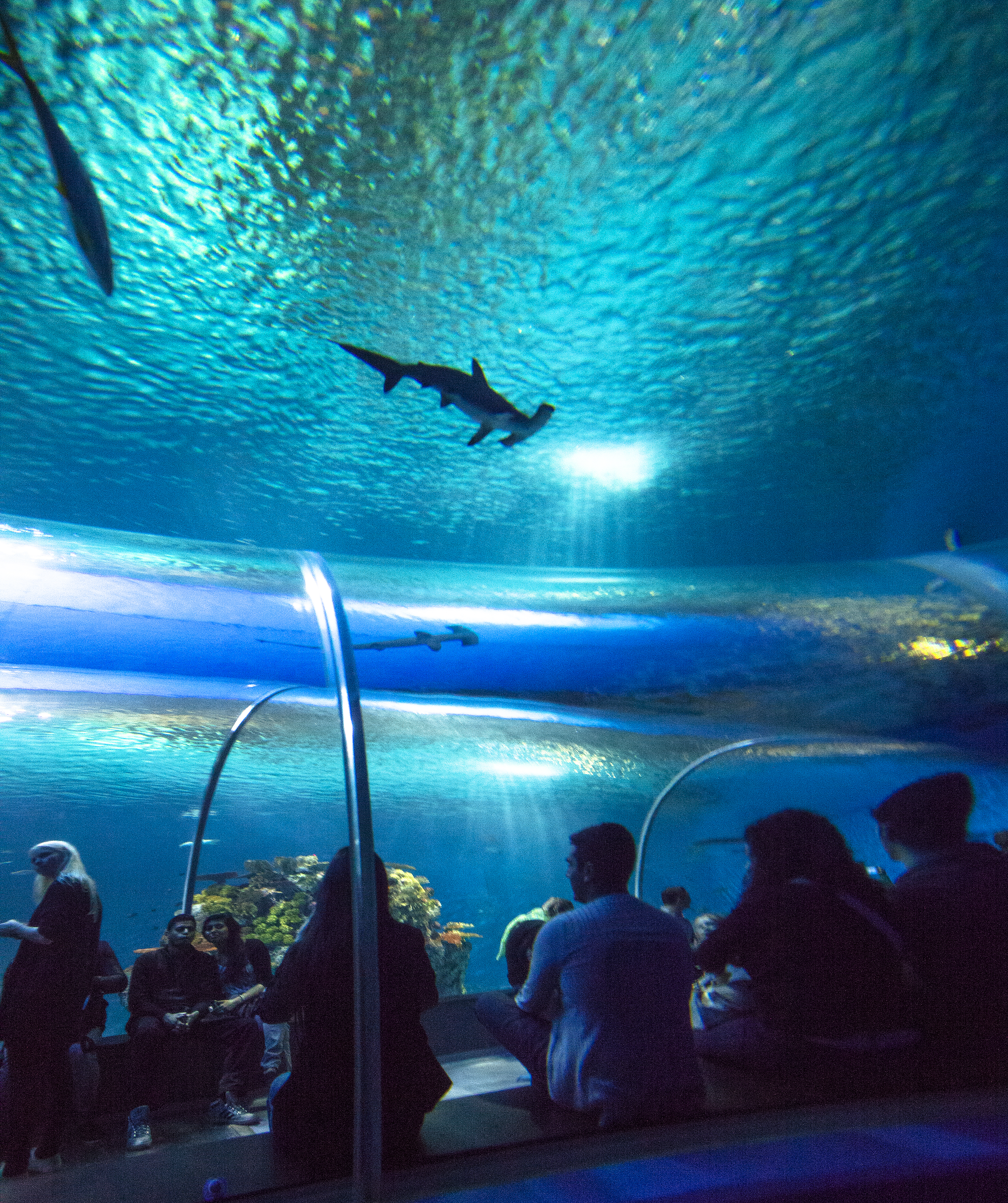 "The Blue Planet" the new National Aquarium, near Copenhagen.